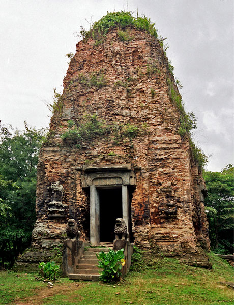 C1 Sanctuary. Sambor Prei Kuk. Cambodia